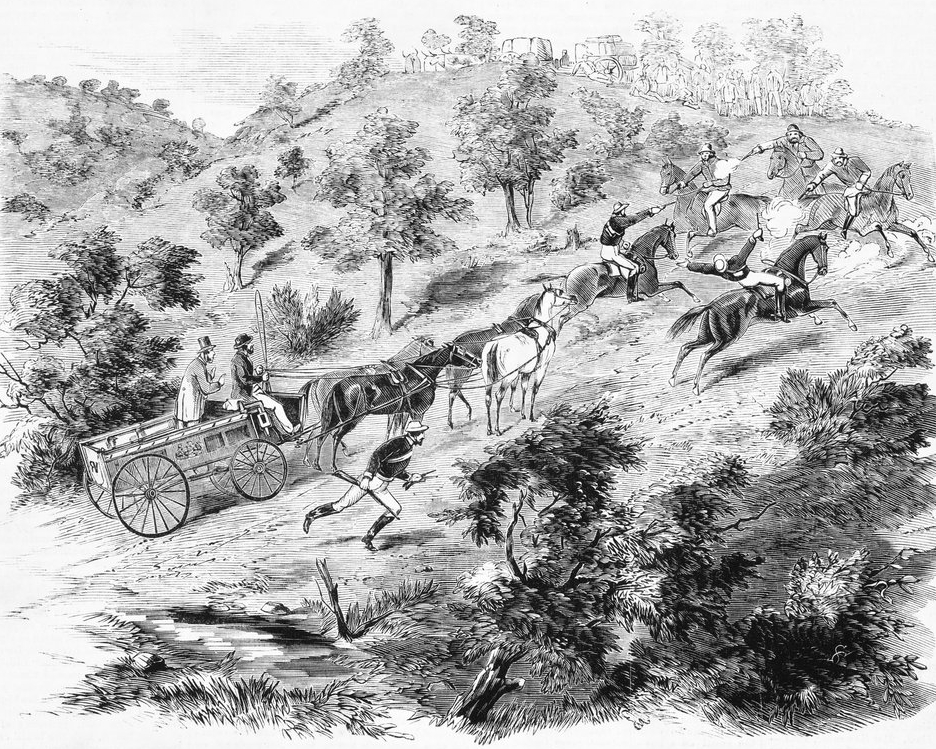 Bushrangers Ben Hall, John Gilbert and John Dunn attack police officers guarding the Gundagai Mail.